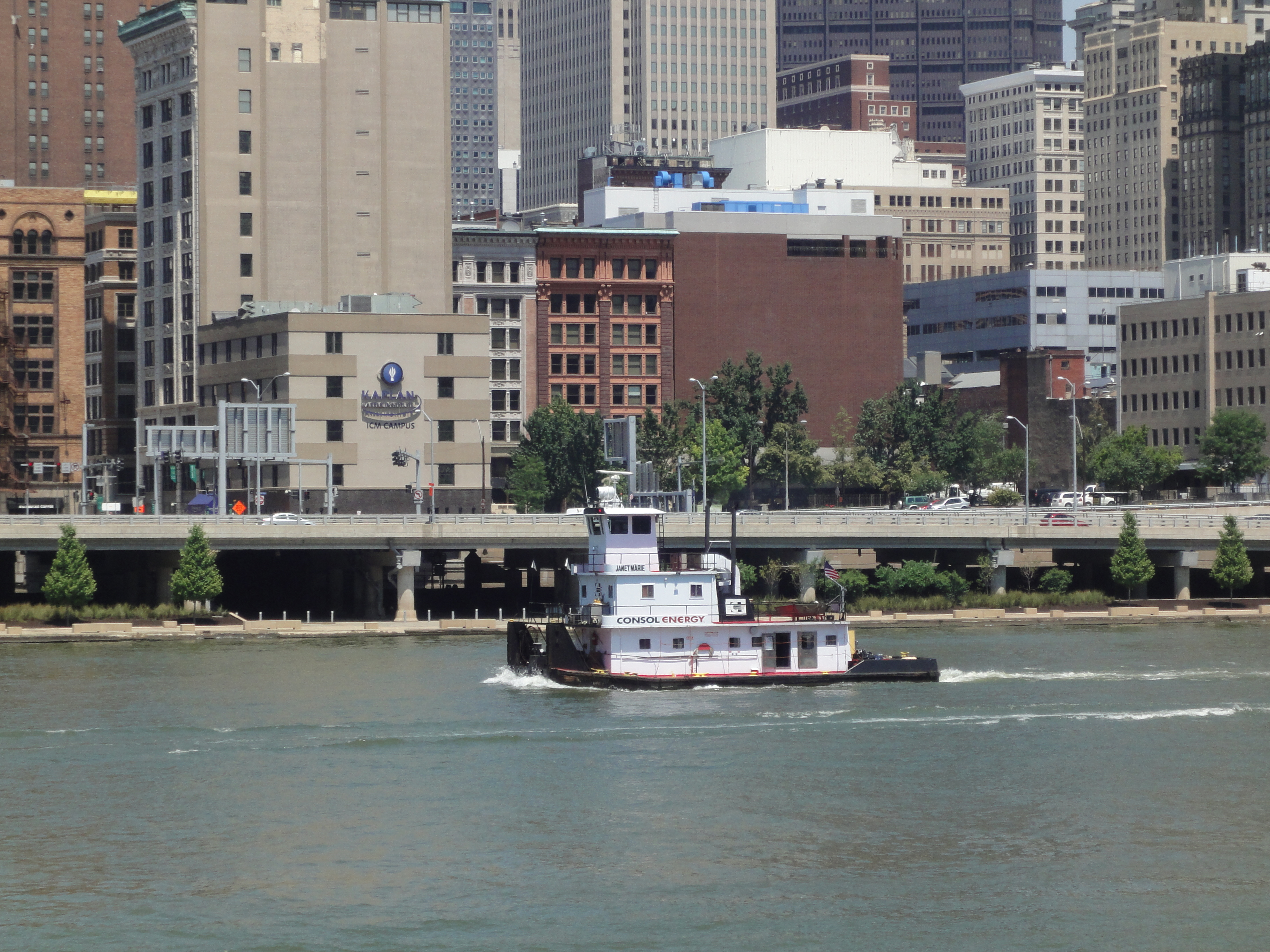 River boat used by CONSOL Energy.